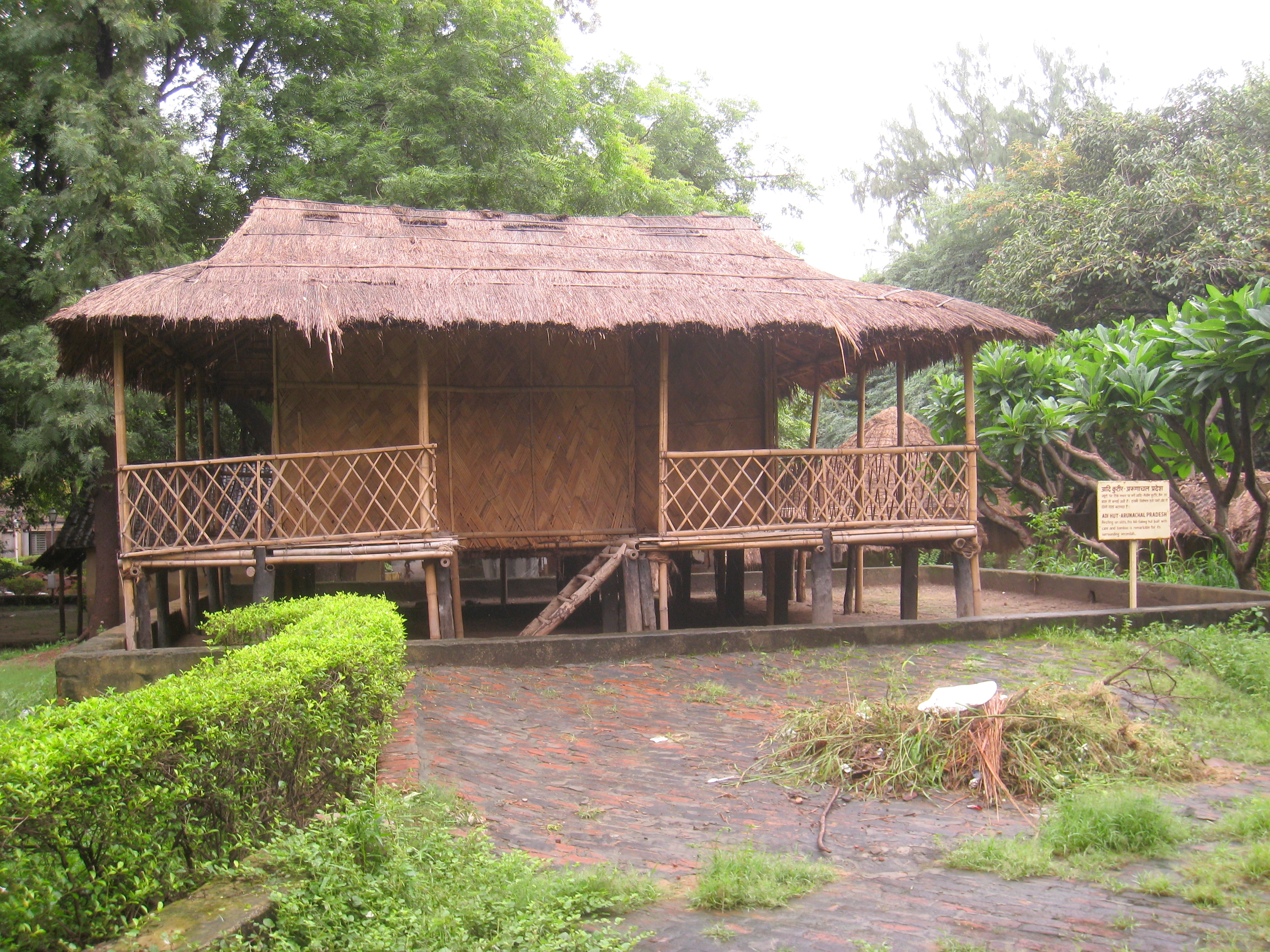 A traditional Adi hut Village complex in Crafts Museum, New Delhi, India.